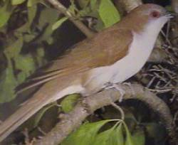 Black-billed Cuckoo from USNPS